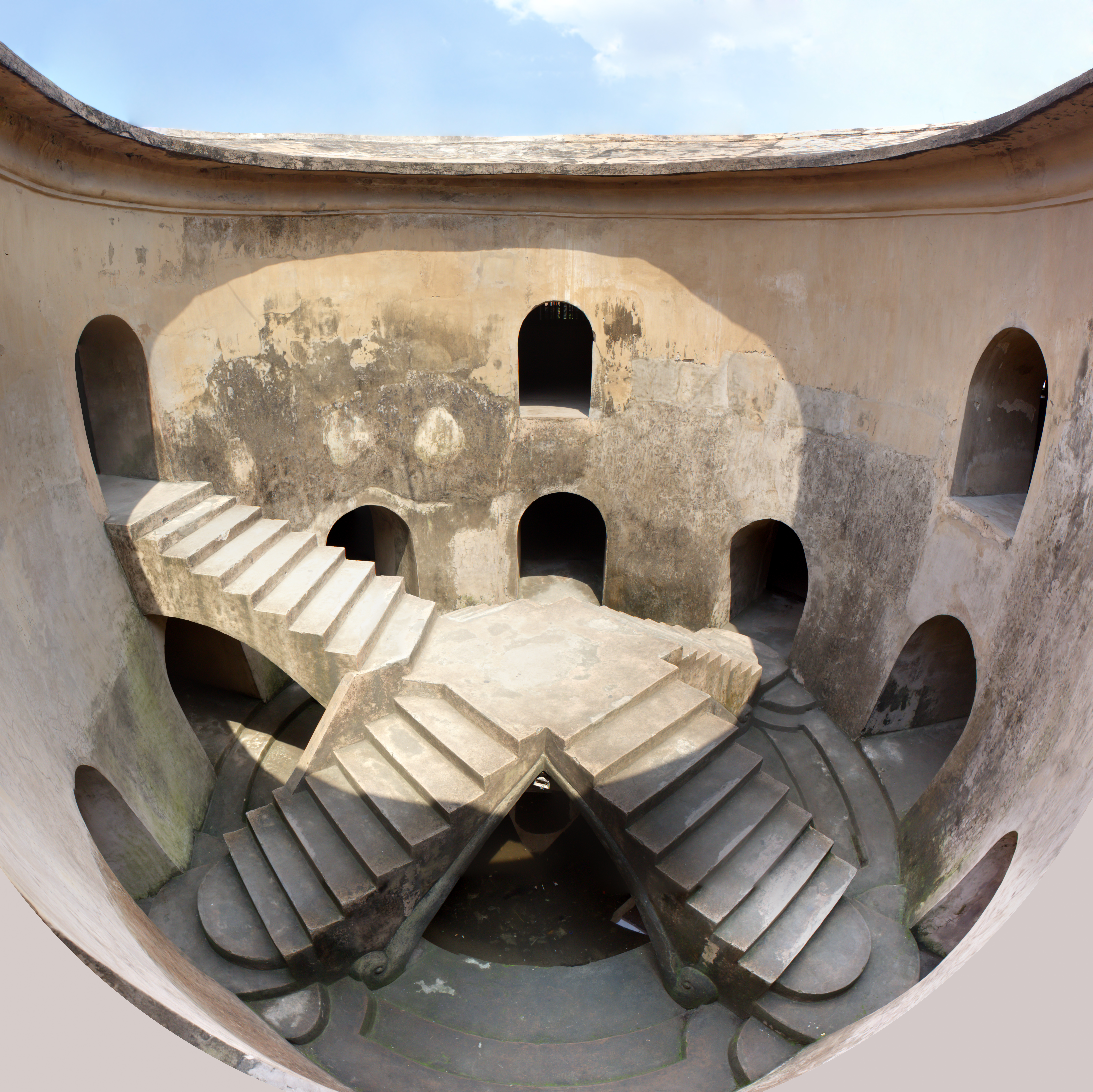 Underground Mosque at Taman Sari, Yogyakarta, 2014-05-07